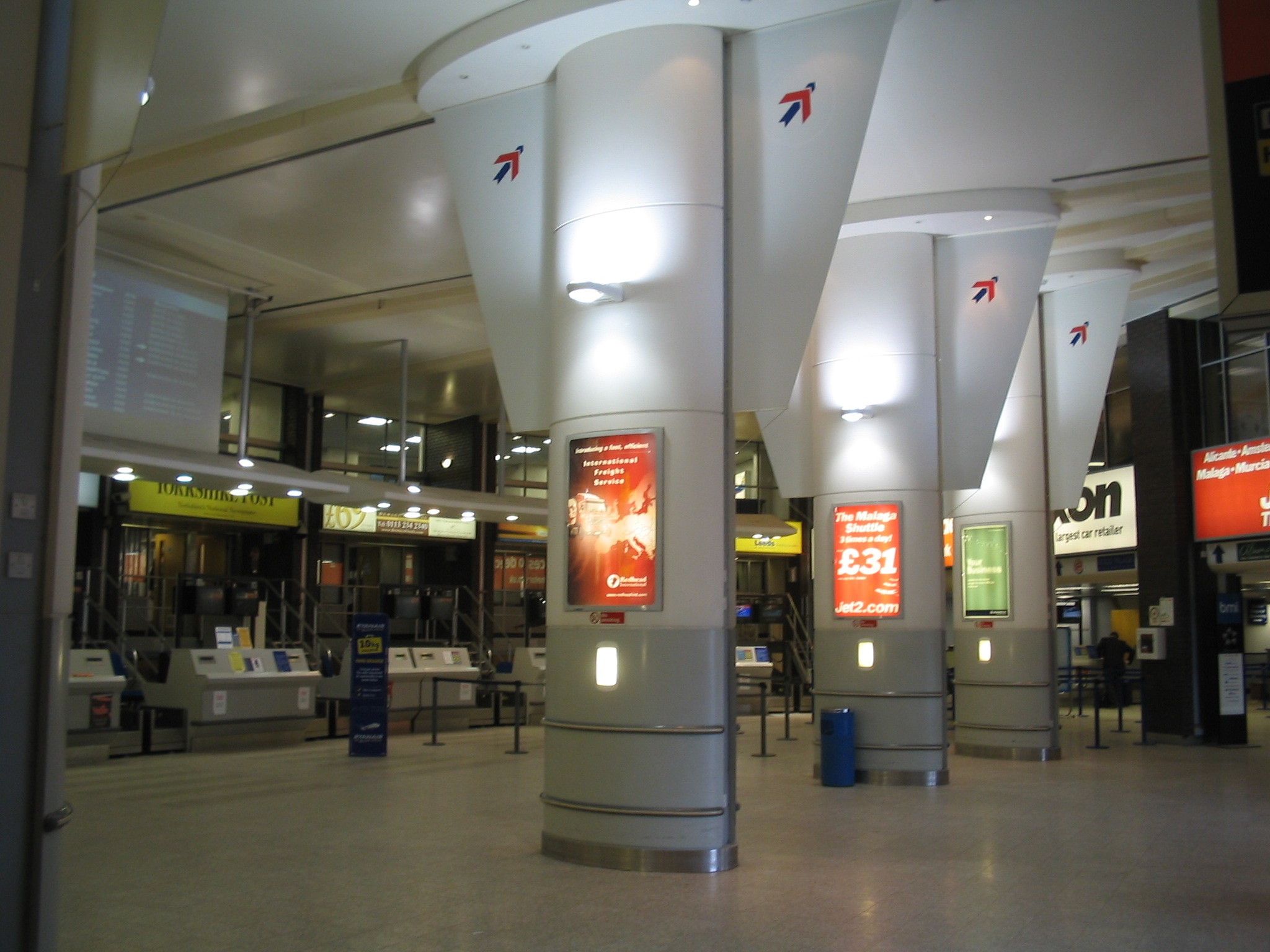 Inside the terminal at Leeds Bradford International Airport. David Benbennick took this photo on Monday, May 9, 2005 at 12:09 PM (11:09 UTC).